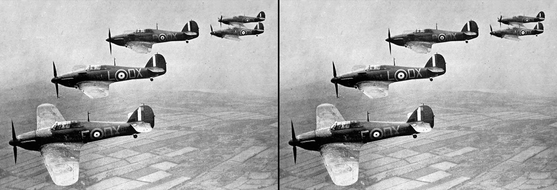 Two identical images of a historic photo of a flight of Hawker Hurricanes of No. 245 Squadron RAF, circa late 1940 or 1941, are placed side-by-side to demonstrate the Van Hare Effect, where a 2D image can be artificially perceived as if it is stereoscopic.